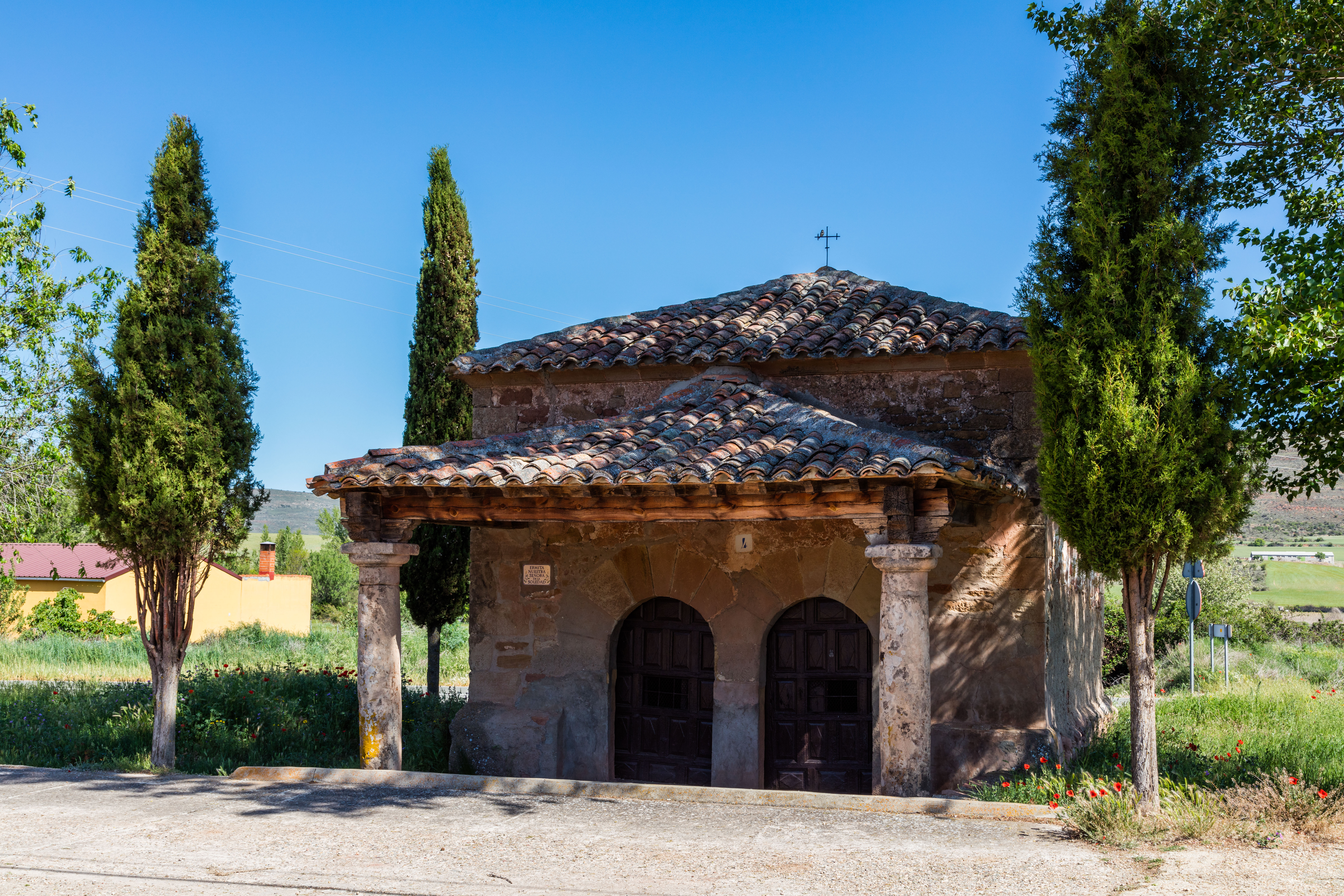 Hermitage of the Lonelyness, Cincovillas, Guadalajara, Spain